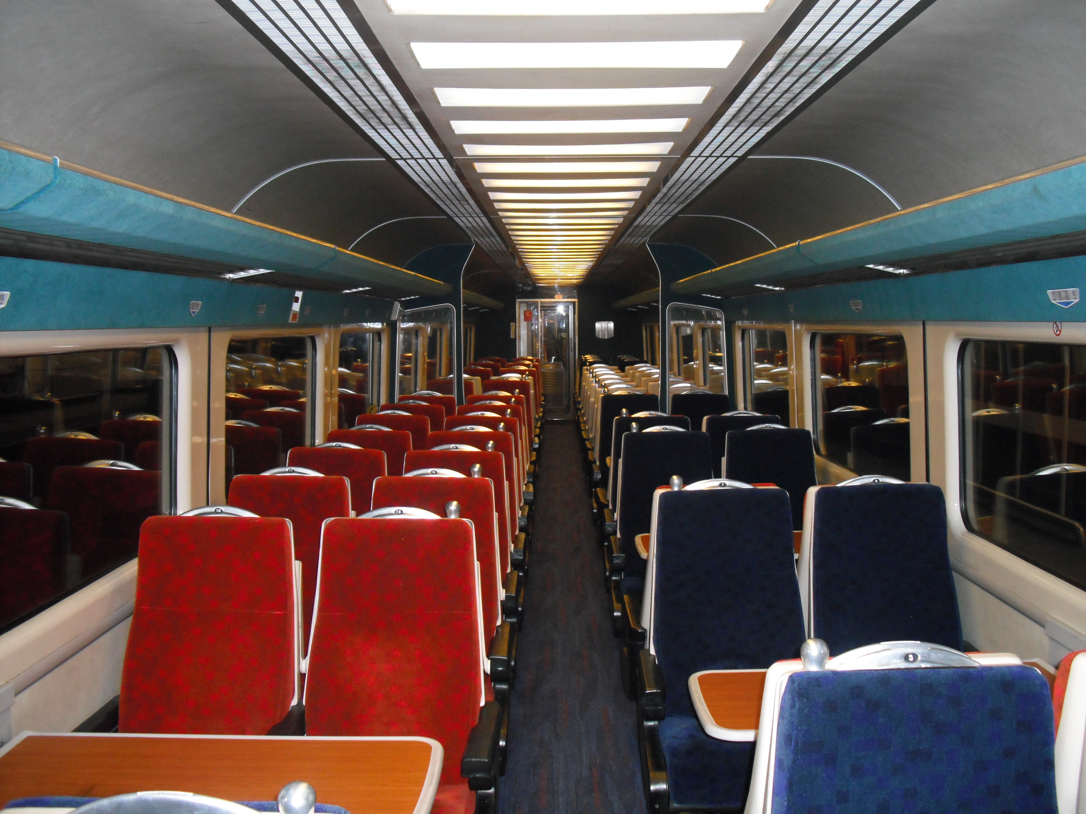 Interior of a Virgin West Coast standard class Mk3 carriage at Birmingham New Street.